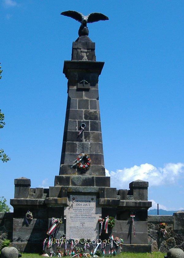 Madefalva memorial